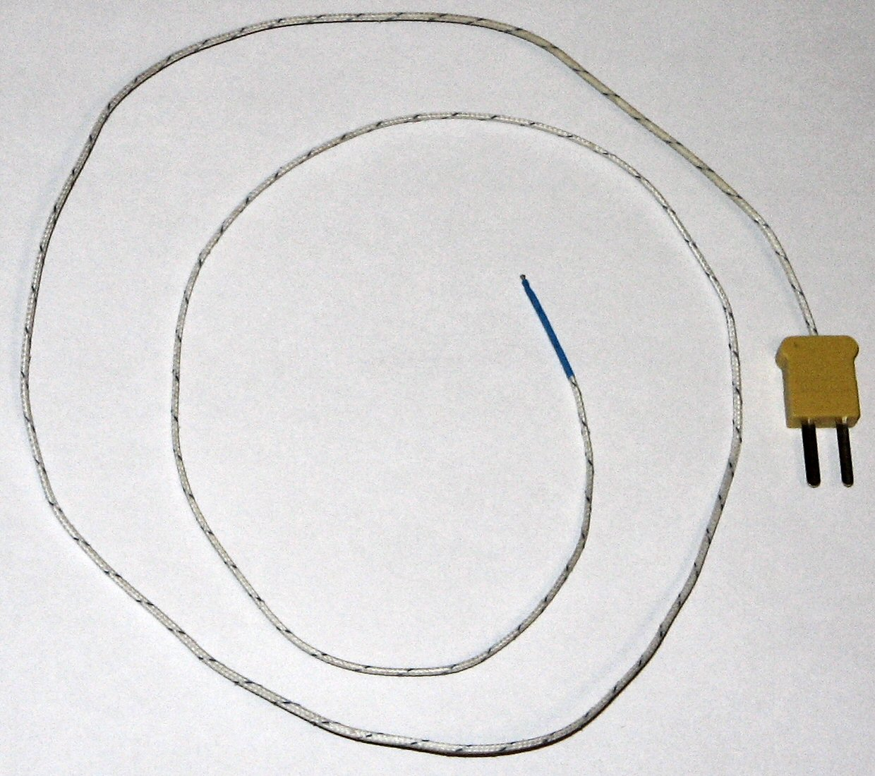 K type thermocouple